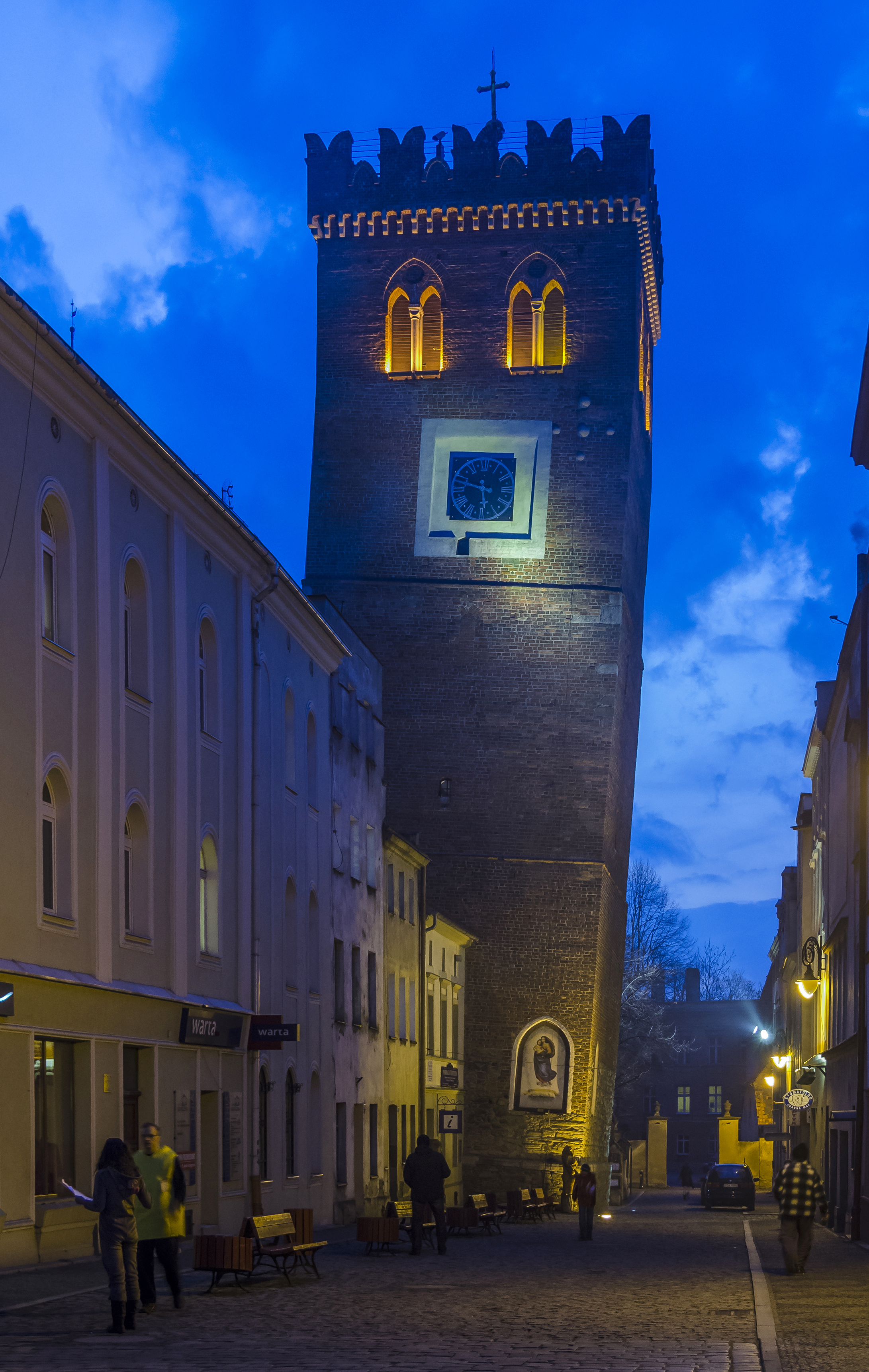 Tower in Ząbkowice Śląskie